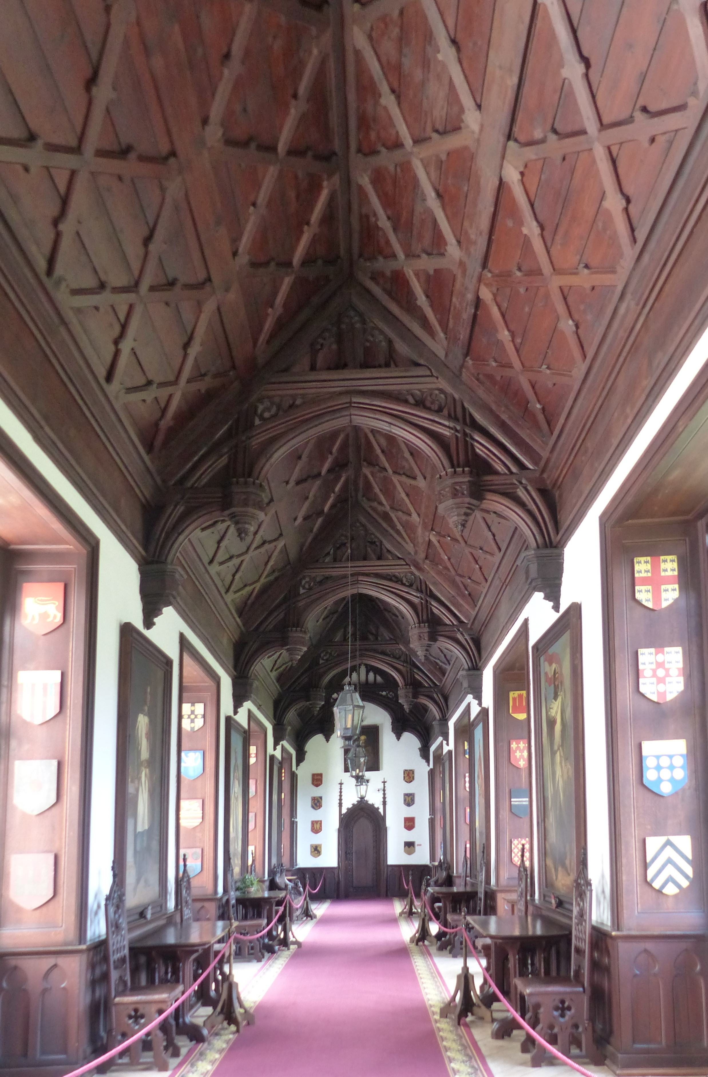 Rožmberk ( Czech Republic ). Lower castle - Crusader gallery ( 1850 )